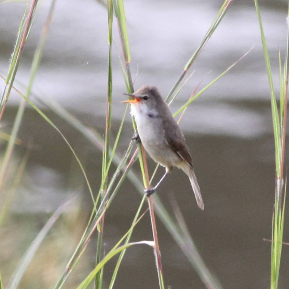 Race ansorgei of the Greater swamp warbler at Menongue, Angola